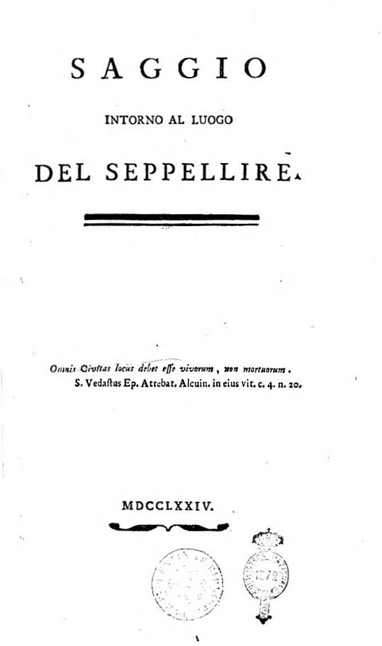 Title page of Scipione Piattoli's Saggio intorno al luogo del seppellire (Essay on the location of burials), 1774.